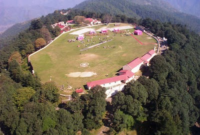 Chail cricket ground aerial view